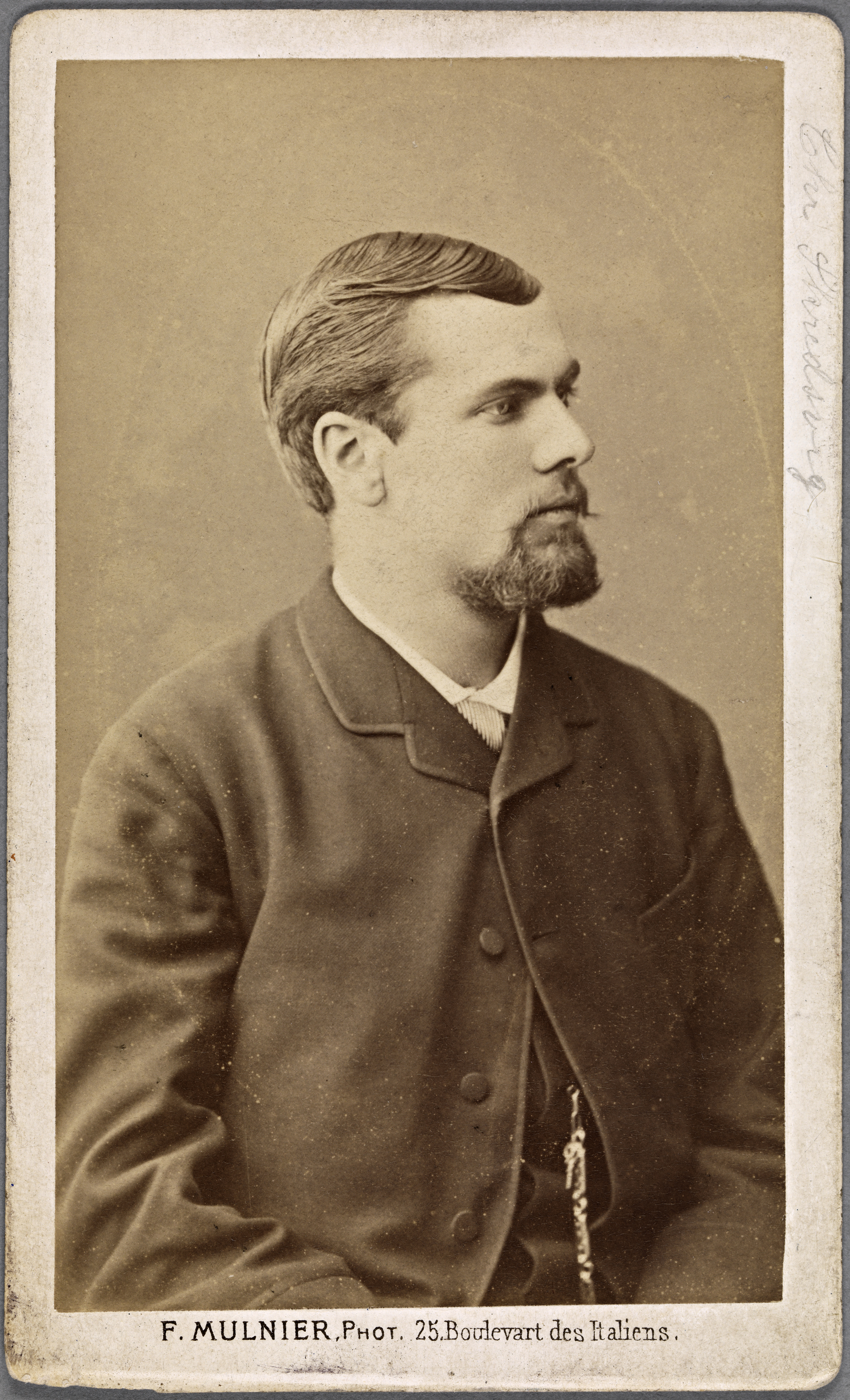 Beskrivelse / Description: Visittkort / Carte de visite. Christian Skredsvig var maler. Dato / Date: ukjent / unknown Sted / Place: Frankrike, Paris Fotograf / Photographer: F. Mulnier (Paris) Digital kopi av original / Digital copy of original: s/h papirpositiv Eier / Owner Institution: Nasjonalbiblioteket / National Library of Norway Lenke / Link: Bildesignatur / Image Number: blds_02981